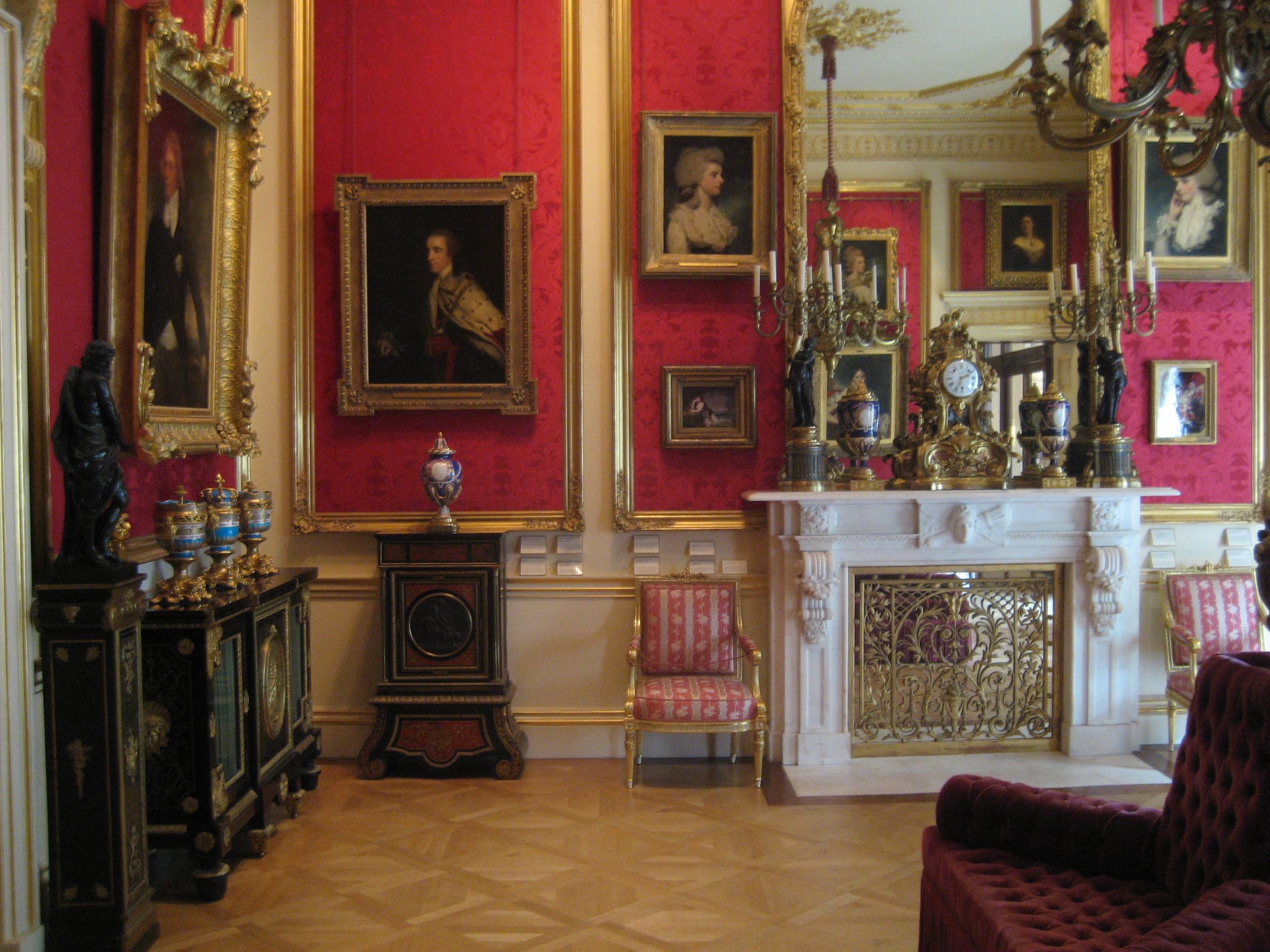 First Floor Drawing Room